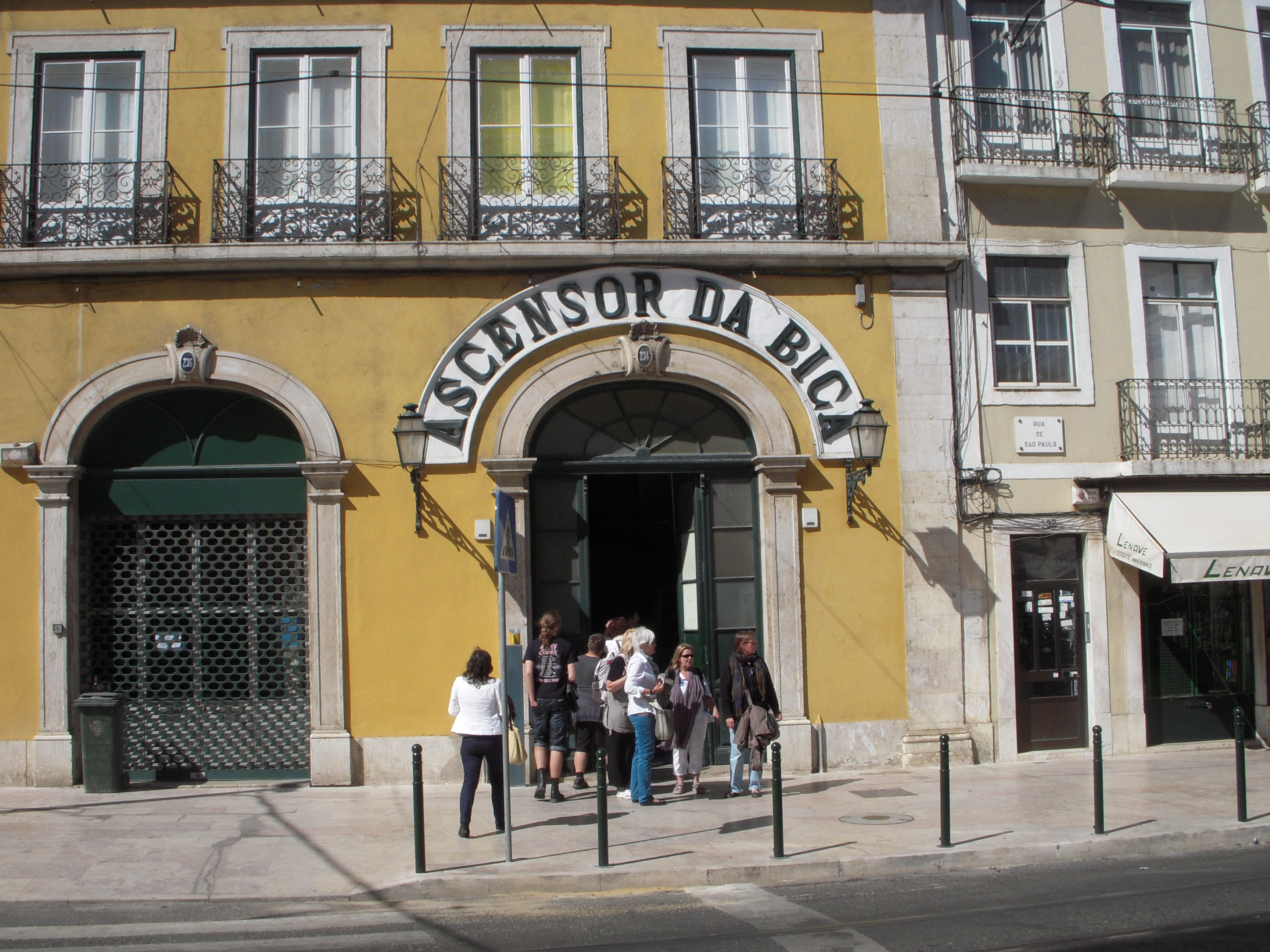 Lower station of the 'Ascensor da Bica' funicular in Lisbon, Portugal. April 28, 2013.